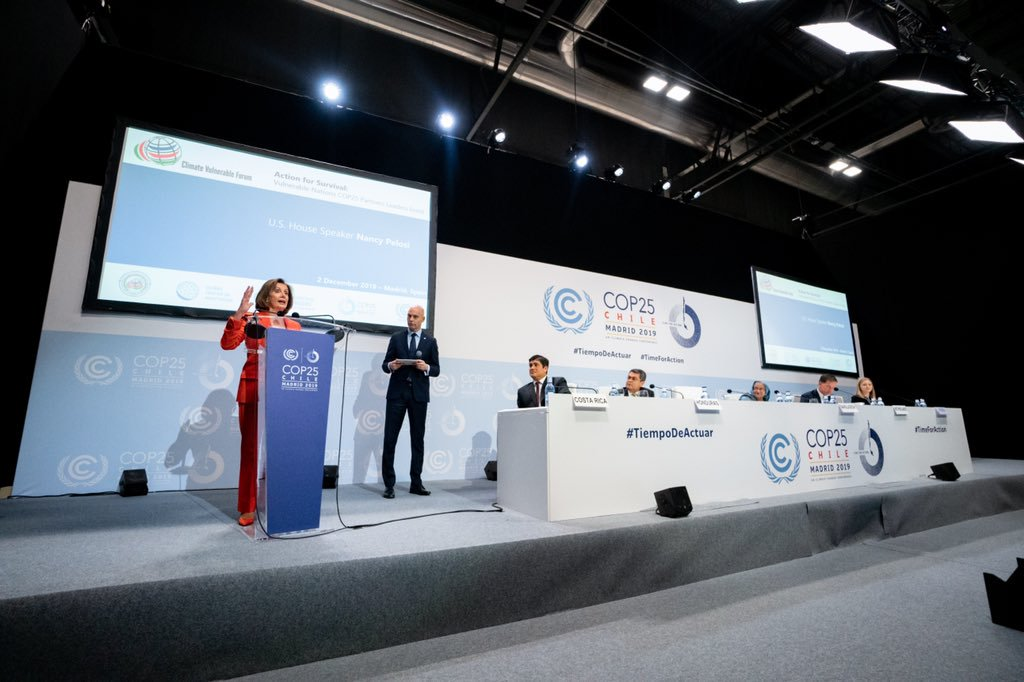 Nancy Pelosi speaks at UN-Climate Change Conference 2019, December 2, 2019, Our delegation’s message at the opening of #COP25 in Madrid: We’re still in it.